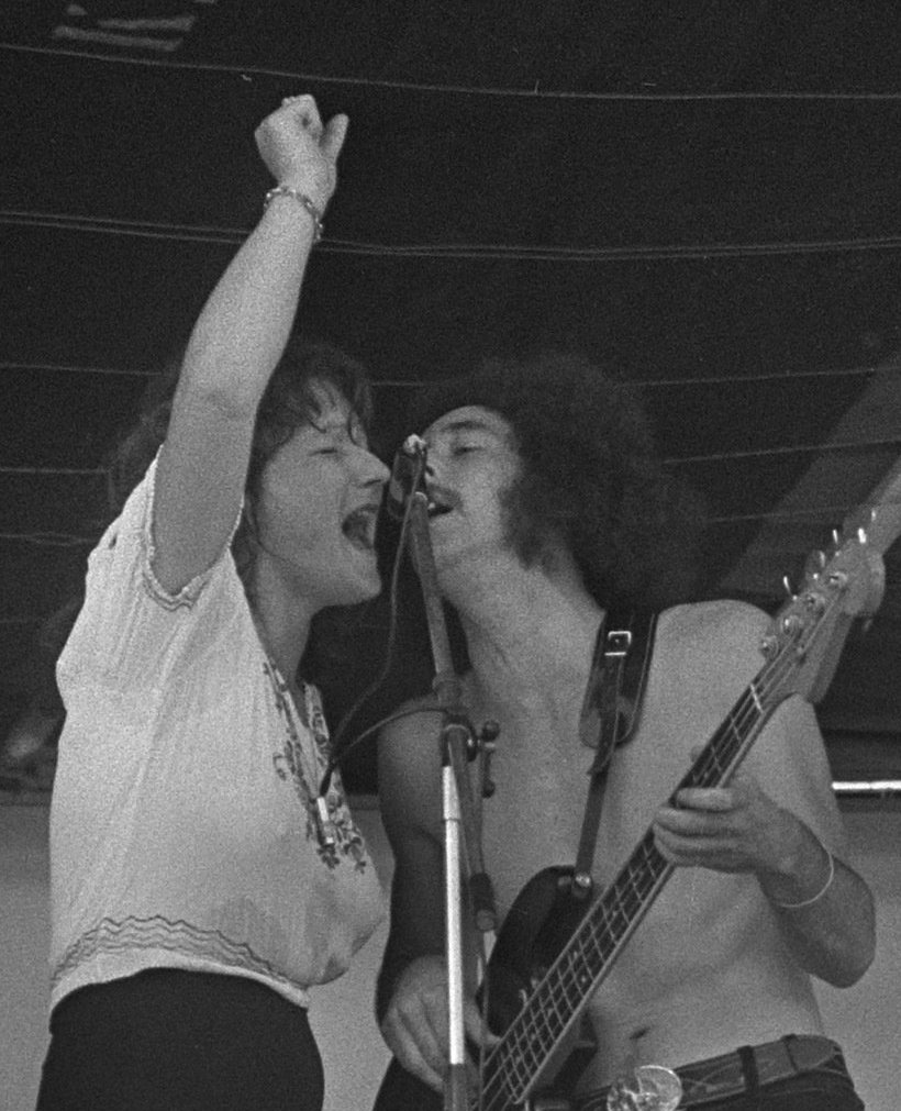 Stone the Crows during Kralingen Popfestival Rotterdam (Holland Pop Festival, 26 June 1970). (Not Jefferson Airplain (sic) as stated by source.) Left to right Maggie Bell, James Dewar, Colin Allen (drums), Les Harvey (backside)